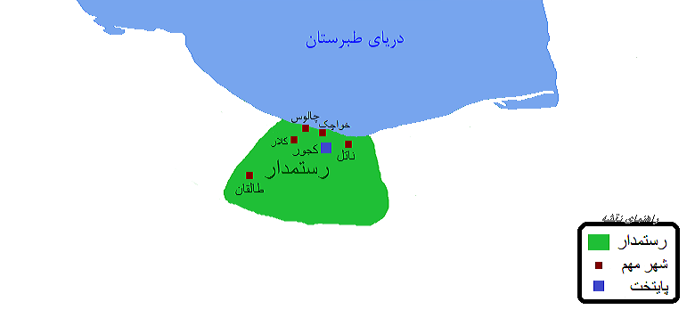 Rostamdar is Mazanadaran Province